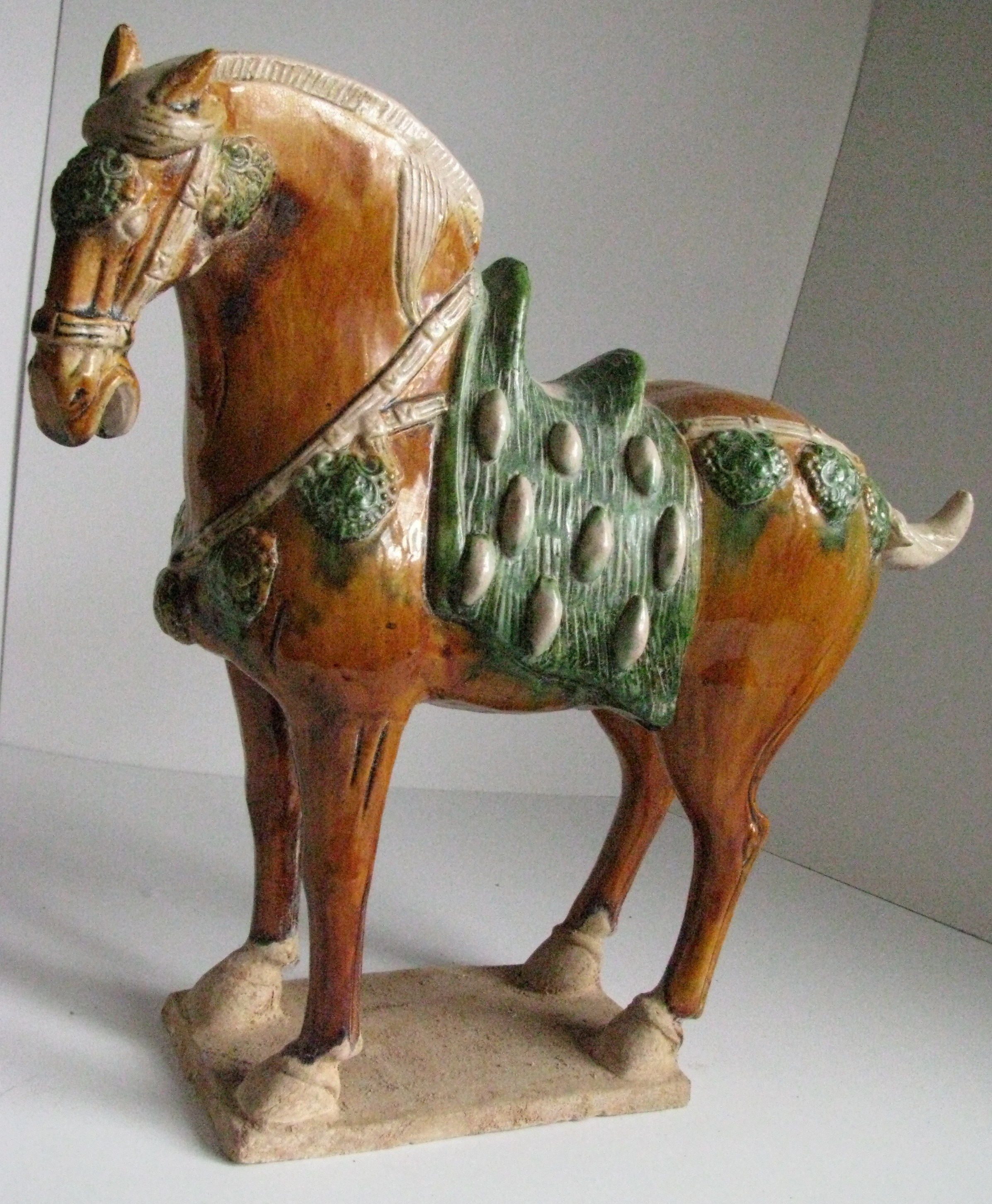 Tang Dynasty sancai figurine of a Ferghana war horse